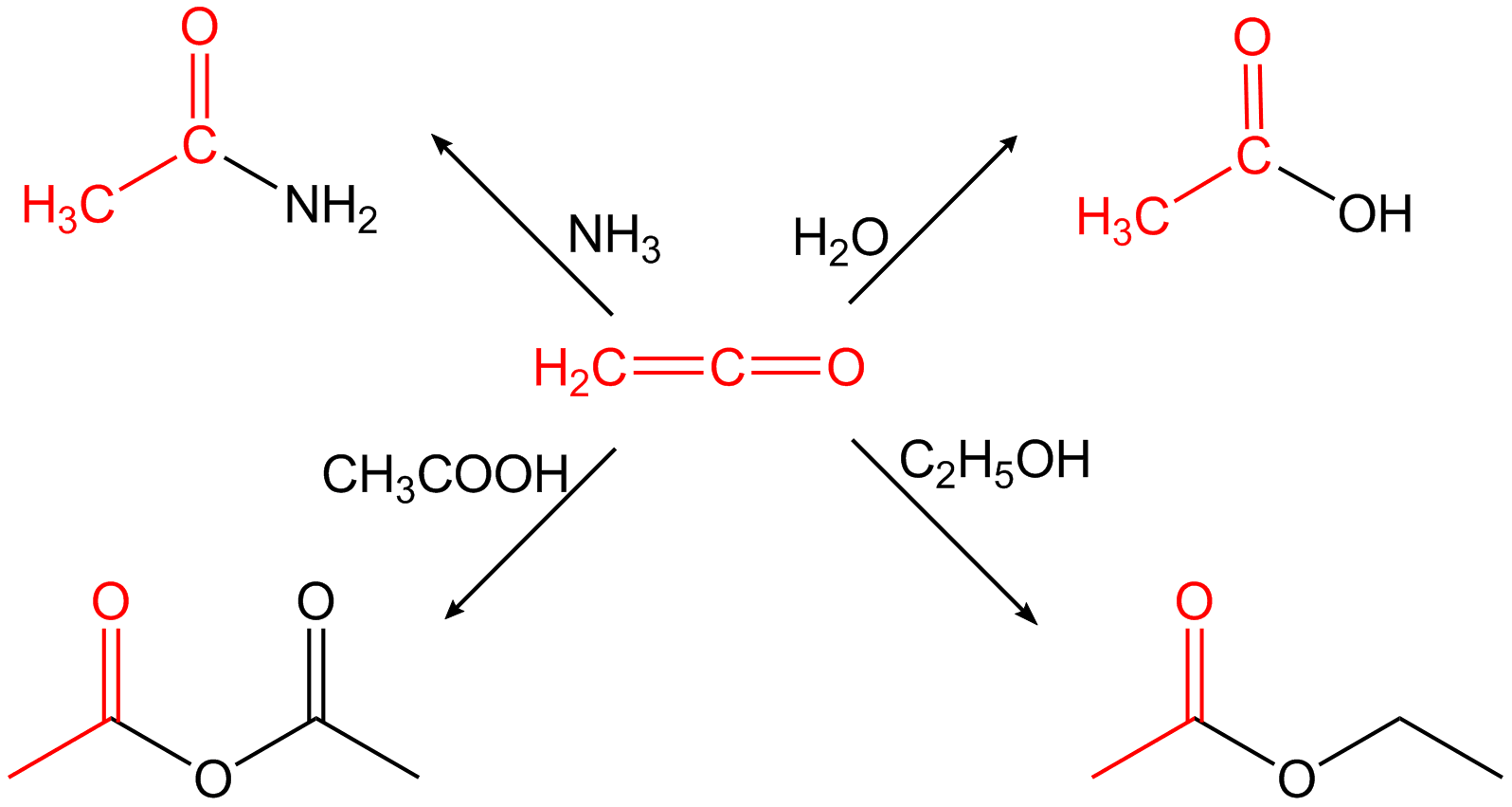 ketene reactions